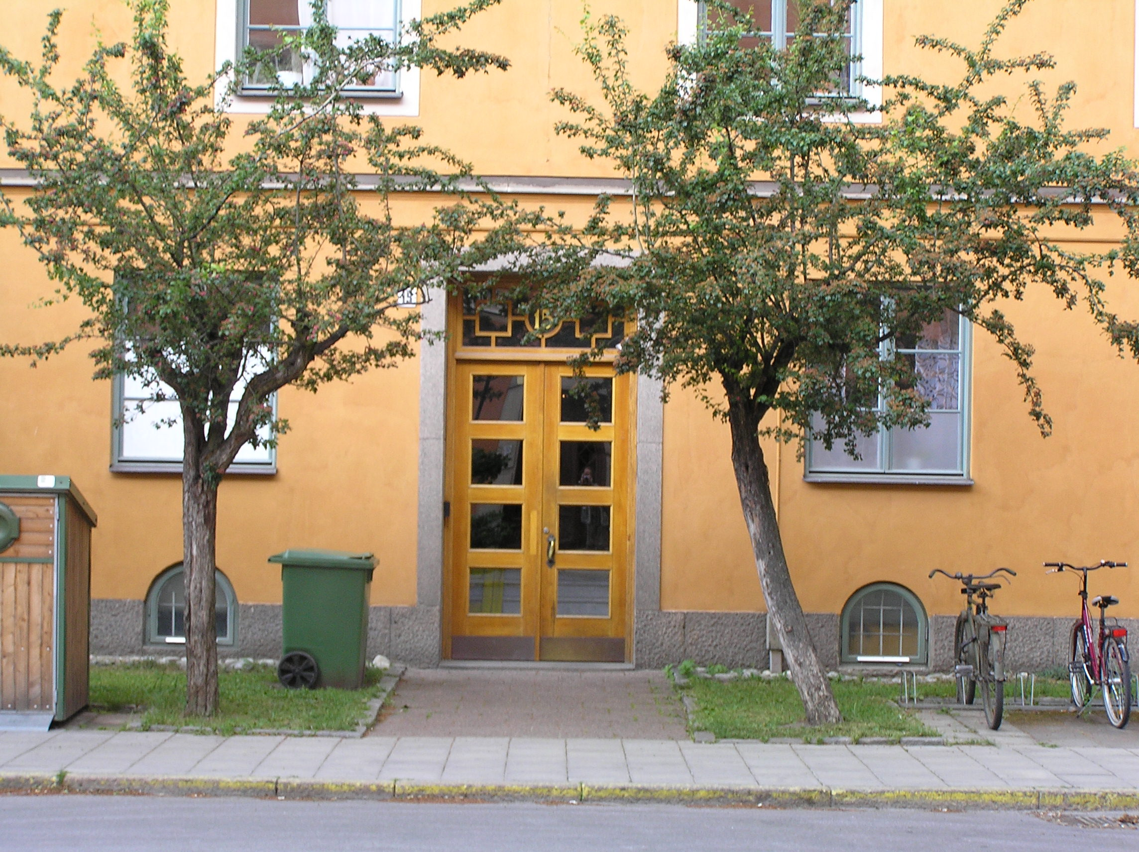 A doorway in the Atlas neighbourhood in Vasastan, Stockholm, Sweden.